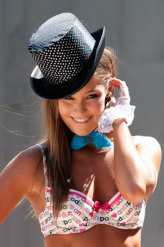 Erin McNaught in underwear, at Federation Square, Melbourne.